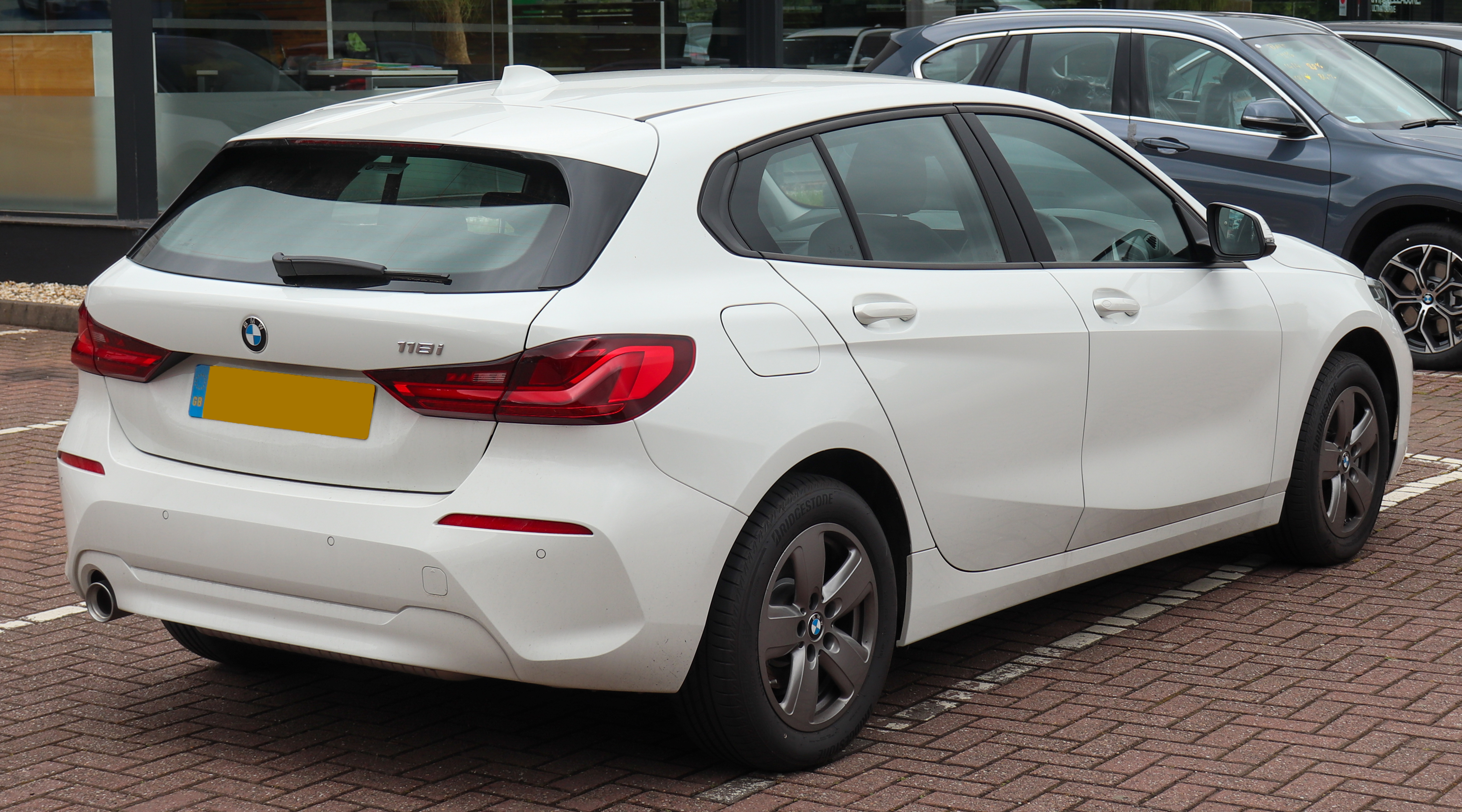 2019 BMW 118i SE 1.5 Rear Taken in Leamington Spa